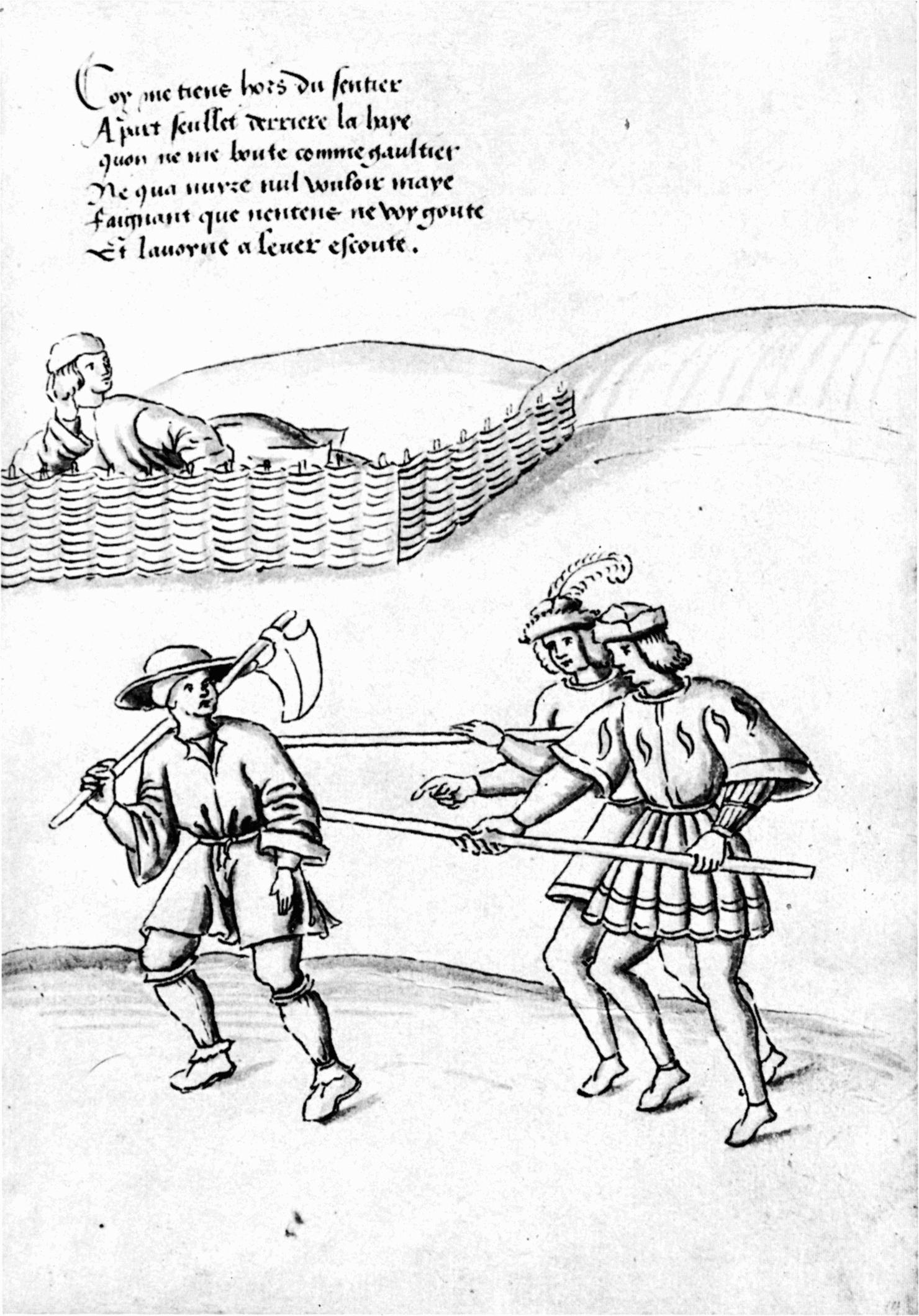 Plea for reticence.